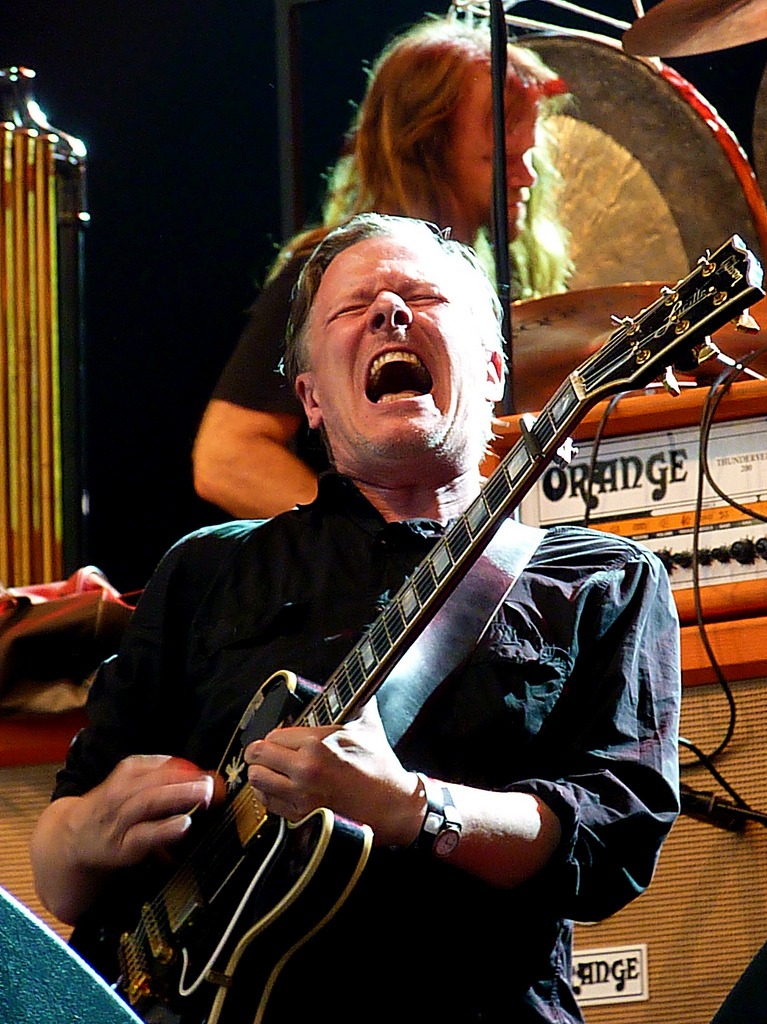 Swans live at London 24th July 2011.